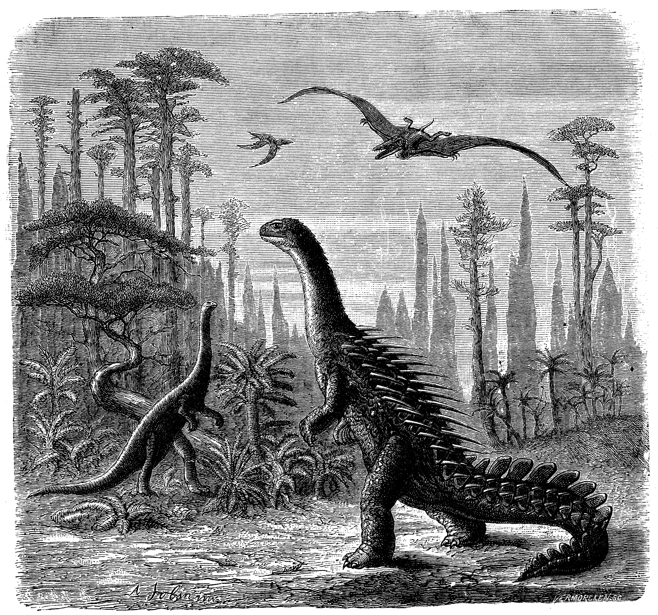 Early restoration of Jurassic North America. Clockwise from top: "Pterodactyls", Stegosaurus, and Compsonotus. Original caption: "American landscape of the Jurassic epoch with reptiles and plants of the period."